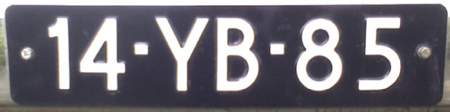 Dutch "Youngtimer" license plate photographed off the street